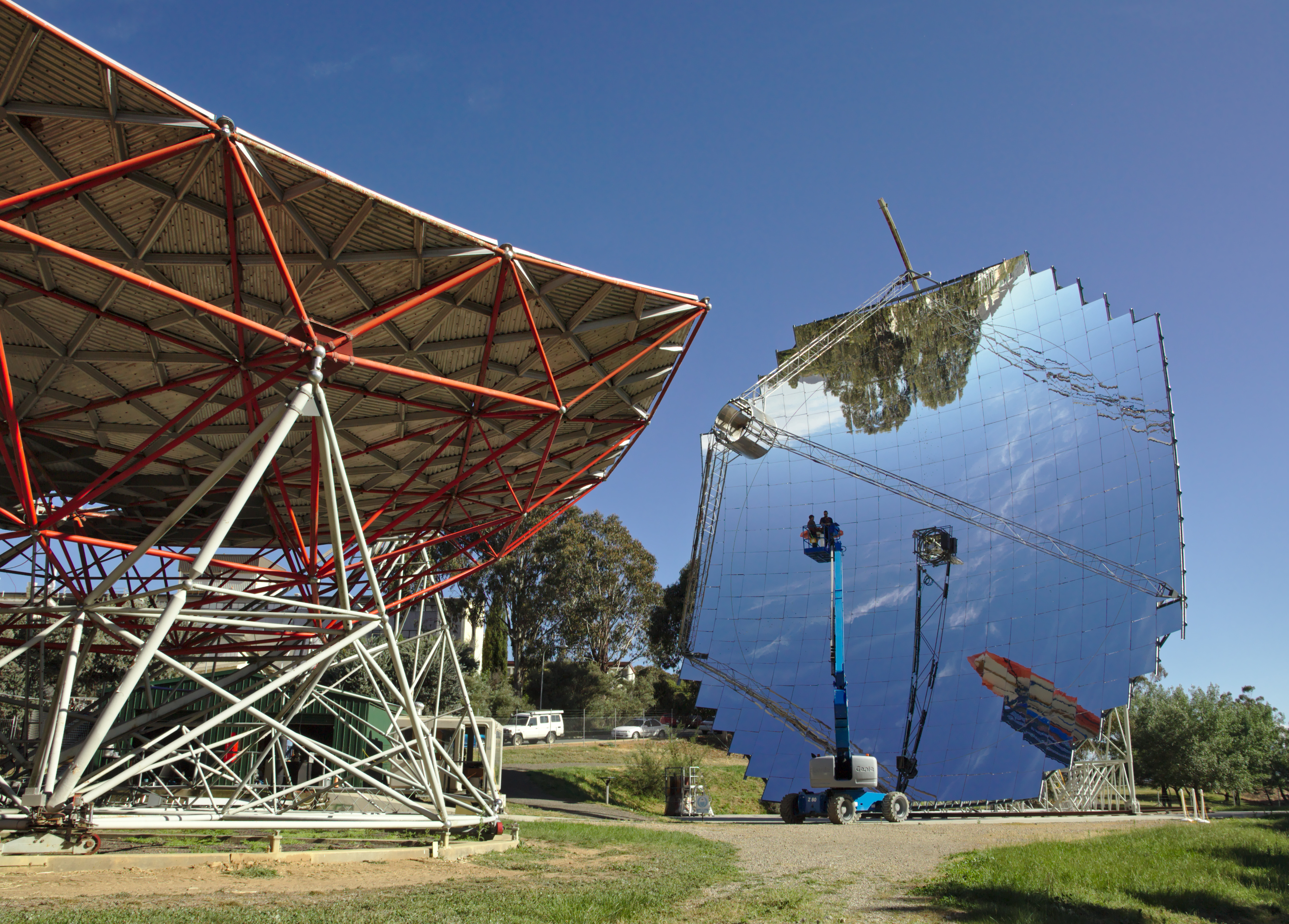 Paraboloidal dish for CSP, with workers changing the installation at the focal point. Described at [1] "The structure is based on a space-frame design. Altitude / Azimuth tracking operation is used, with the dishes rotating on reinforced concrete tracks, with a base frame supported by wheel assemblies. The ANU prototype delivers a peak concentration ratio of 1500"